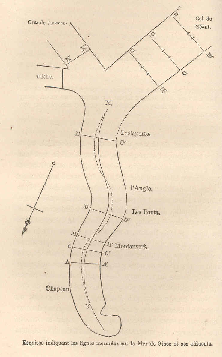 Subject: Mer de Glace (Chamonix, France)--Maps, Glaciers--France--Maps Geographic Subject: France--Mer de Glace Tag: Polar